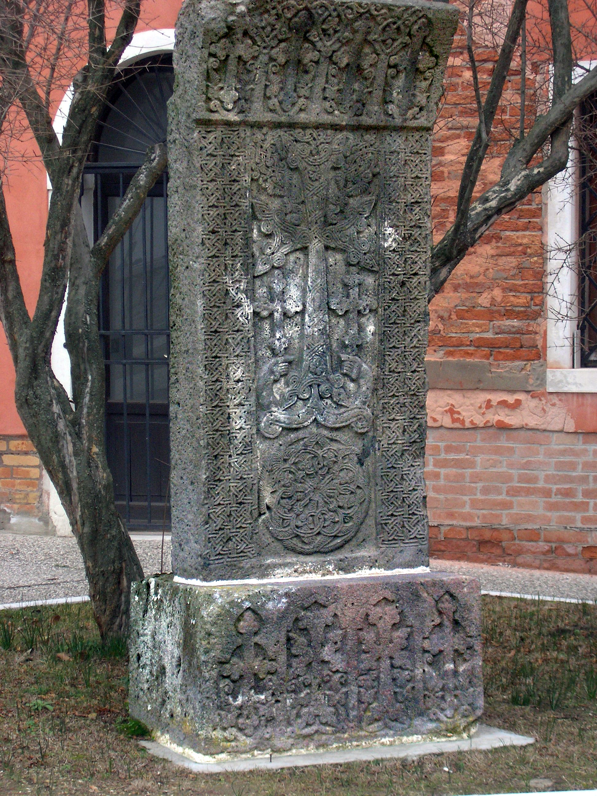 Detail from the garden of St. Lazzaro degli Armeni, XIVth c.